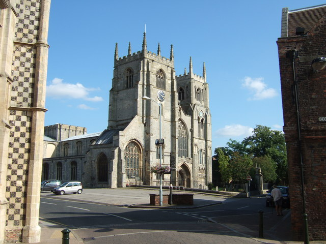 St Margaret's parish church, Kings Lynn, Norfolk, seen from the northwest, with Saturday Market Place in foreground